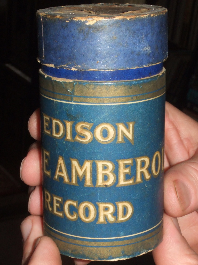 Front view of the cardboard tube used to store Blue Amberol cylinders.